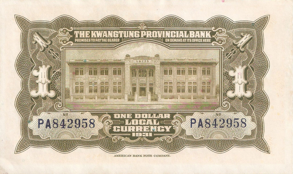 A provincial banknote issued by the Kwangtung Provincial Bank 🏦 to circulate in the Province of Guangdong, the Republic of China.